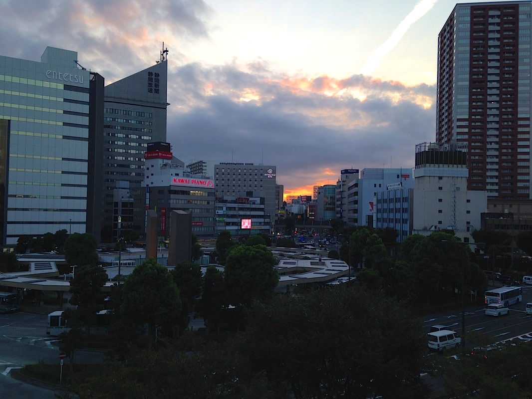 Part of Hamamatsu Skyline